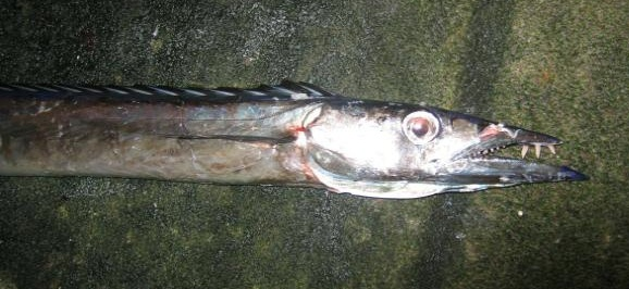 Head of a snake mackerel (Gempylus serpens)